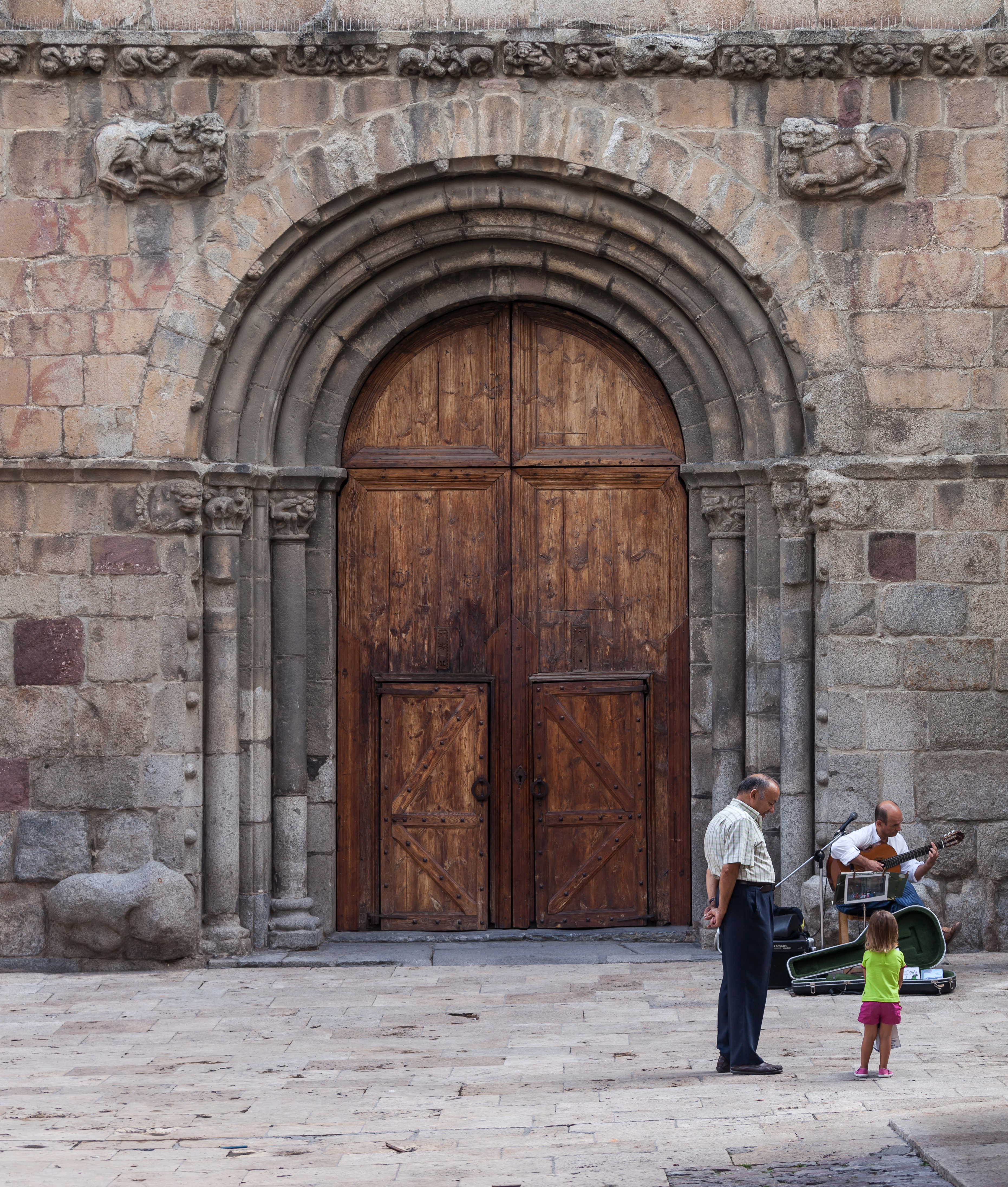 Portal of the Cathedral of la Seu d'Urgell. Catalonia.